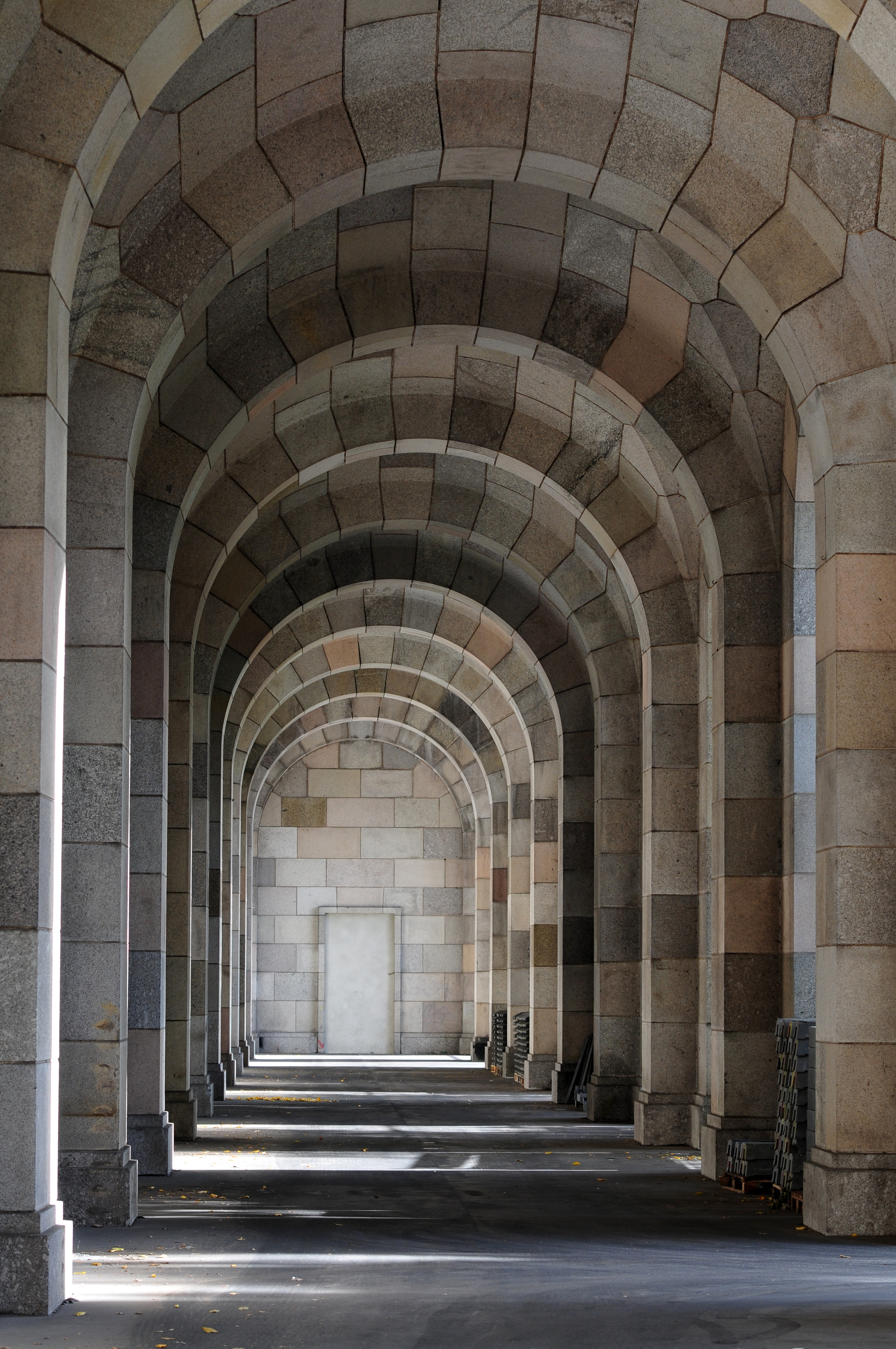 Kongreßhalle Nuremberg at the Reichsparteitagsgelände